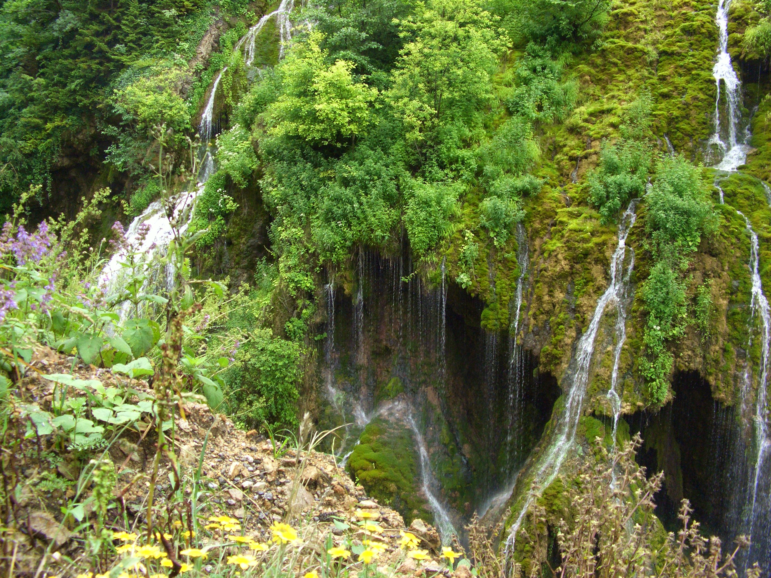 An amazing waterfall on a small brach of Aksu Stream which flows up to Black Sea in Aksu town near Giresun city center. The Aksu borns from Giresun Mountain Chains in Şebinkarahisar and Alucra which are the districts of Giresun province located in southern part of the province. This beatiful stream has hundreds of small branches on it. Most of these branches makes wonderful waterfalls in the adjacement points. This photo taken between Pinarlar and Sariyakup villages.